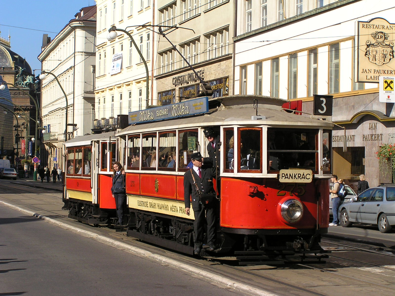 Prague tram reg. number 275, year of construction 1908, own work, september 2005, honza 55